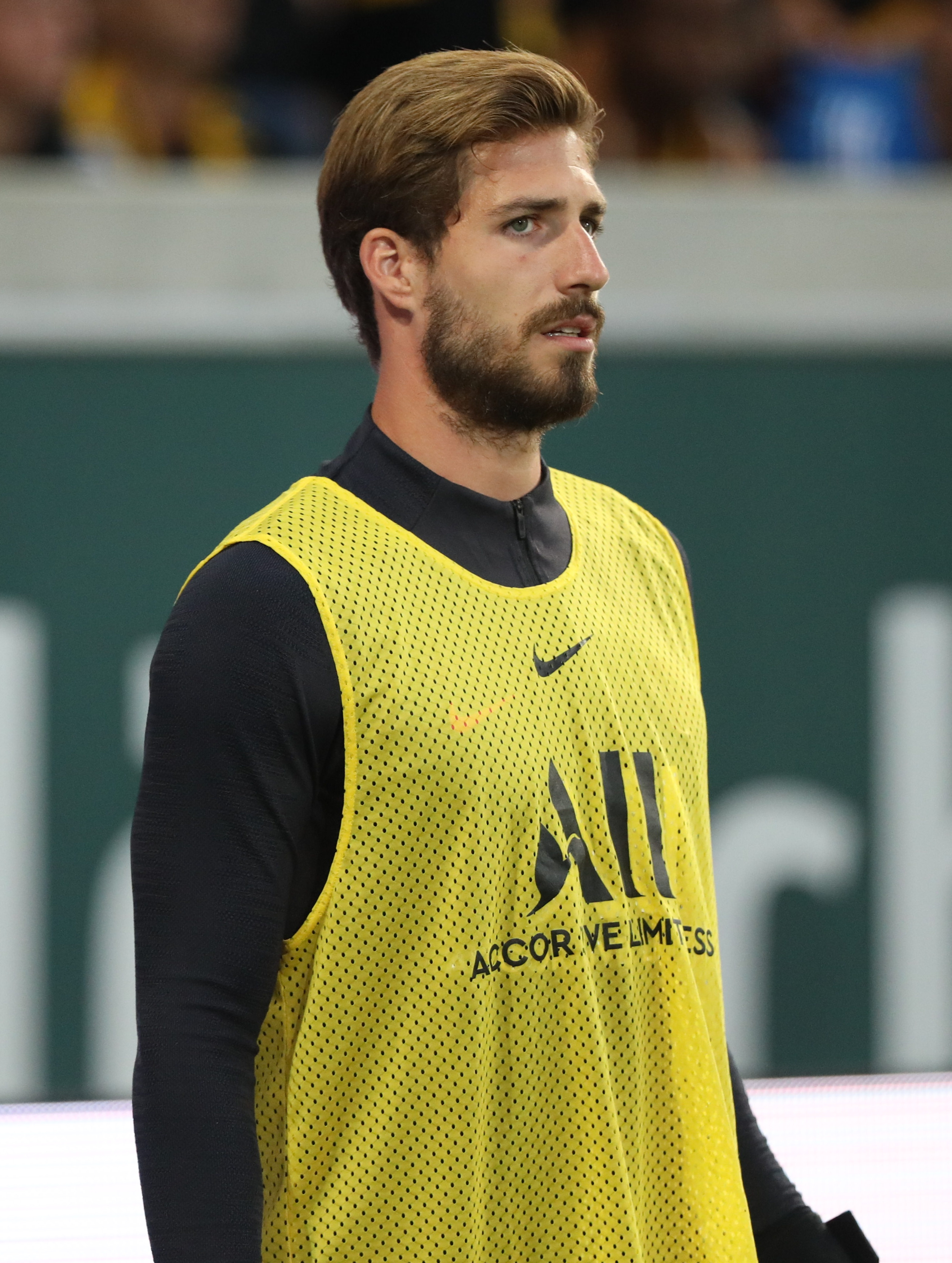 Test game, 17th July 2019: SG Dynamo Dresden vs. Paris Saint-Germain 1:6 (0:3)